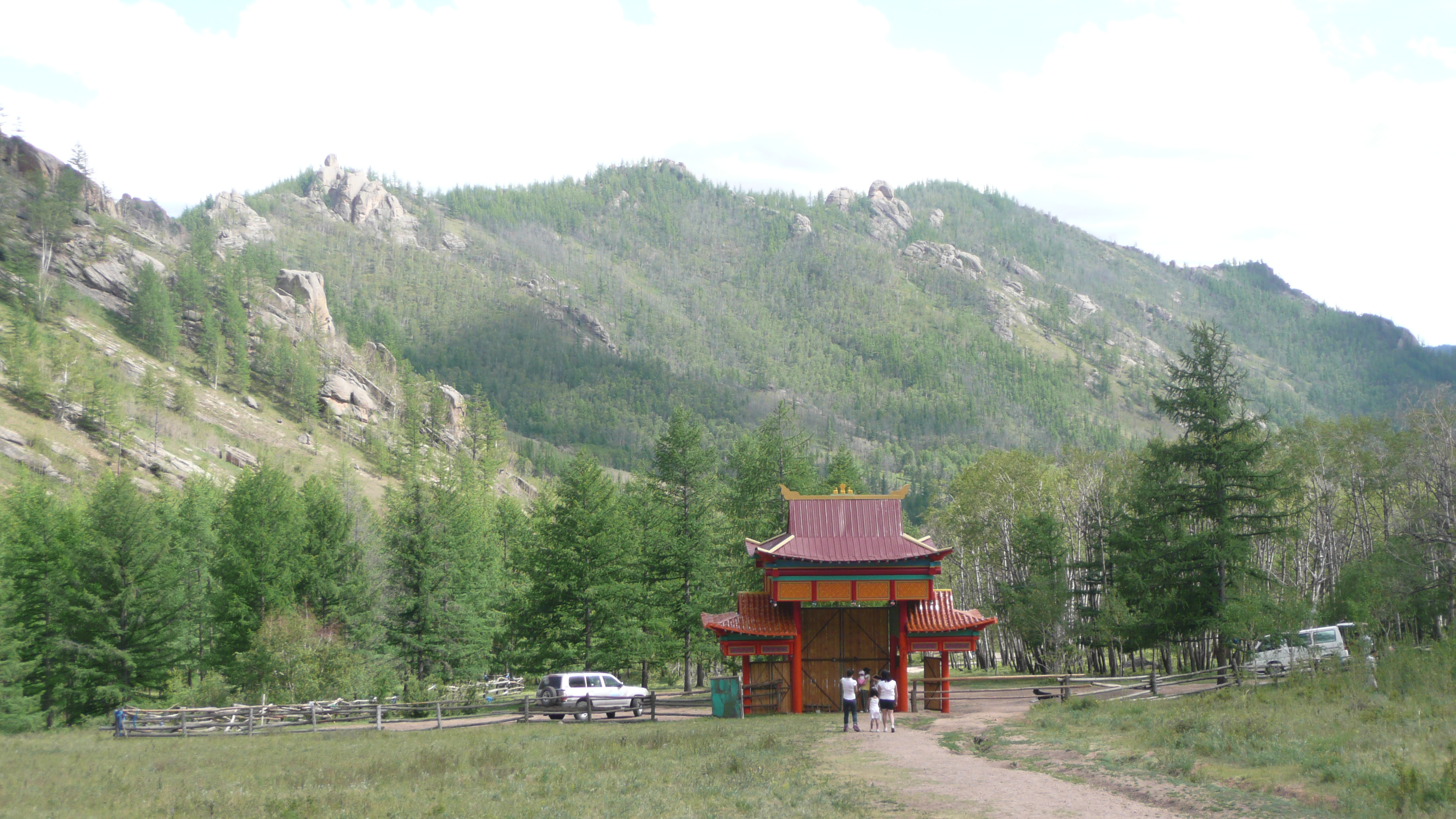 Gorkh-Terelj National Park